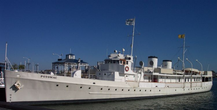 USS Potomac, once Franklin Delano Roosevelt's presidential yacht, moored at Jack London Square, Oakland, California